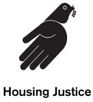 This is the logo of Housing Justice; a second tier national charity that enables churches, shelters, Local Authorities and MPs to effectively help homeless people.